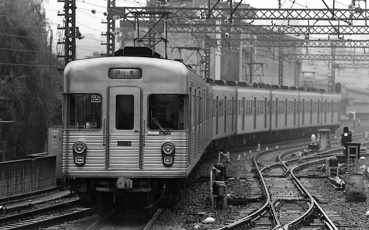 TRTA Hibiya Line 3000 series EMU set 3078 at Naka-Meguro on a through working to the Tokyu Toyoko Line